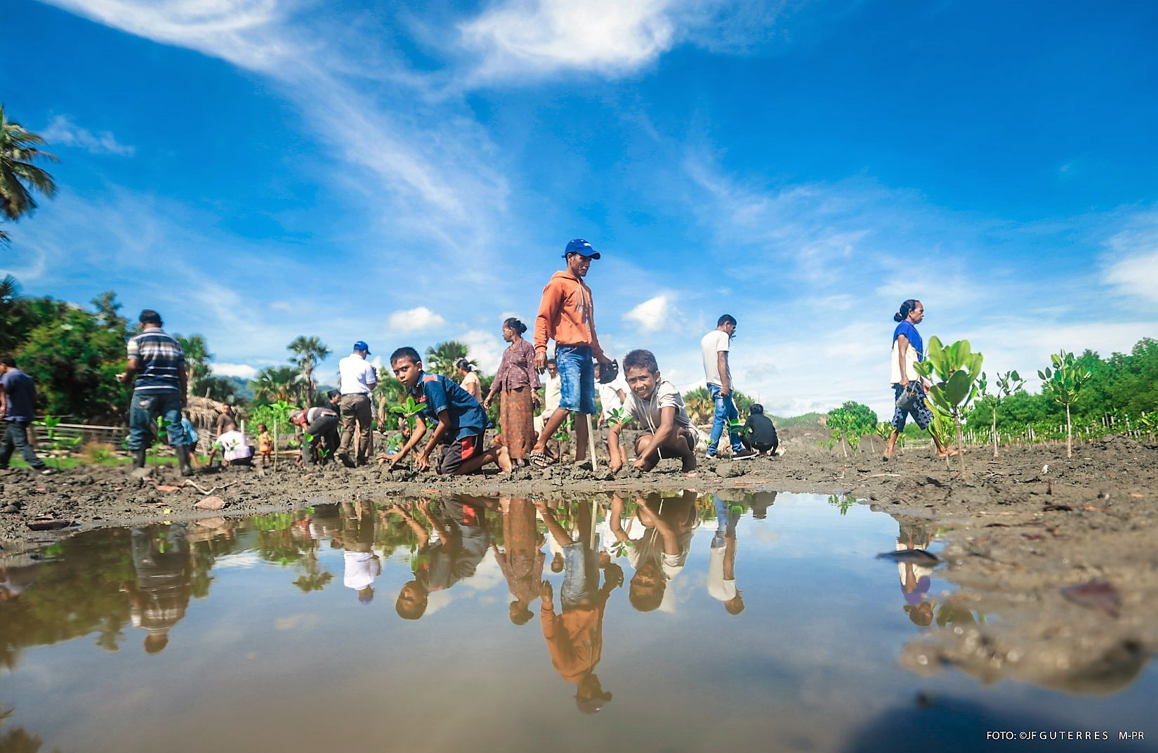 Restoring a mangrove in Ulmera in East Timor